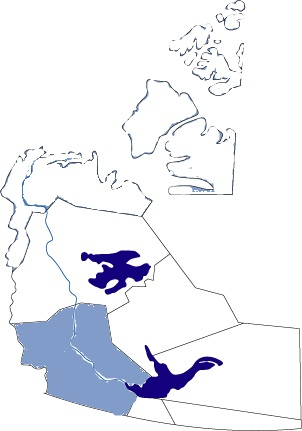 Dehcho Region